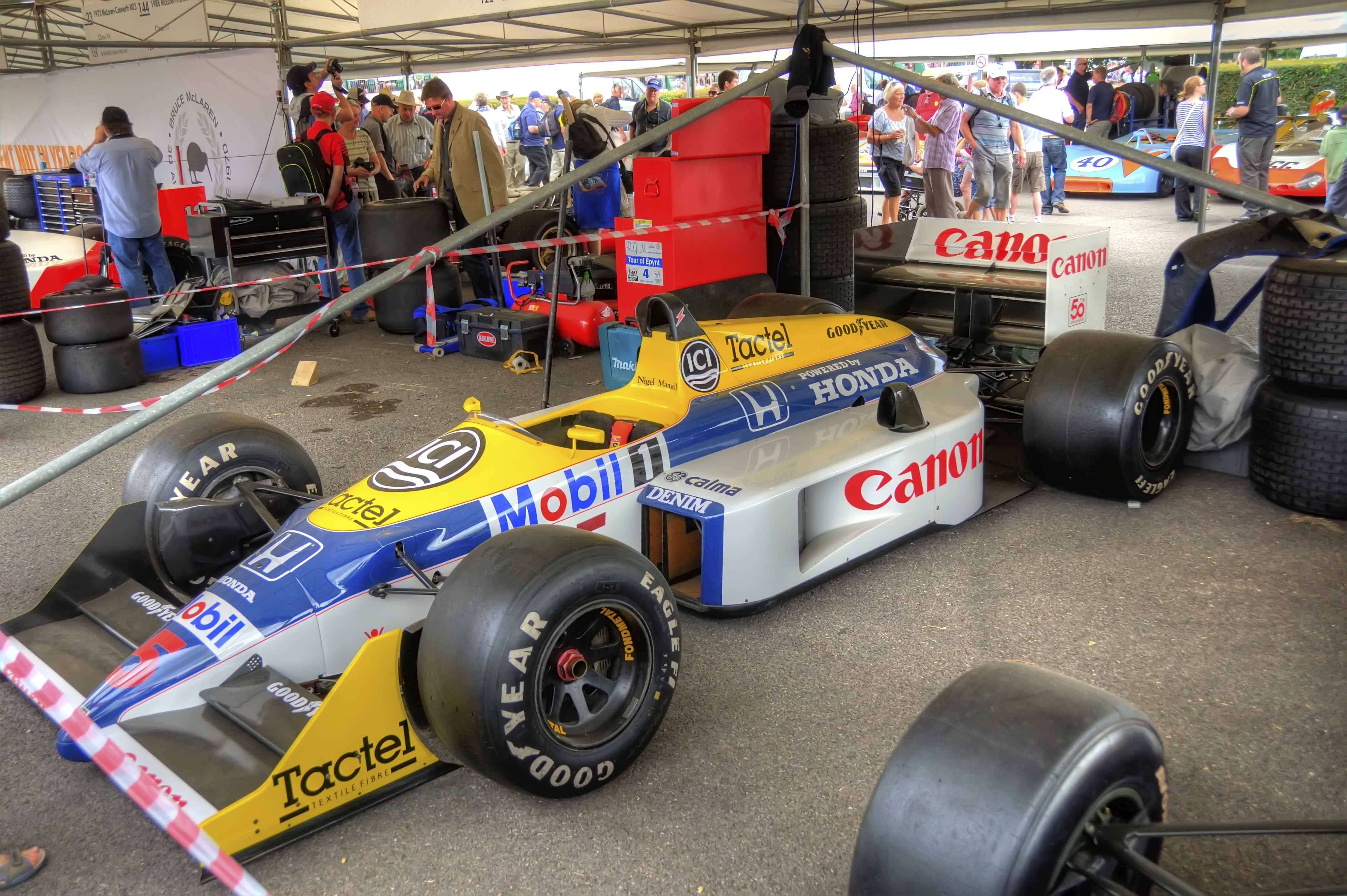 Williams Honda FW11B ex Nigel Mansell